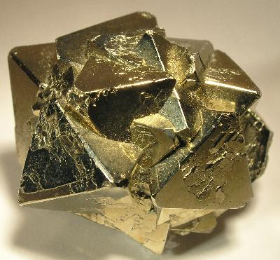 Pyrite Locality: Erzurum Province, Eastern Anatolia Region, Turkey Size: thumbnail, 2.9 x 2.5 x 2.1 cm Pyrite The octahedrons here have a superb form and luster that rival the best Pyrites in the world. Look at this, and you think Huanzala! CLASSIC OLD MATERIAL. Just an exceptional specimen. 2.9 x 2.5 x 2.1 cm